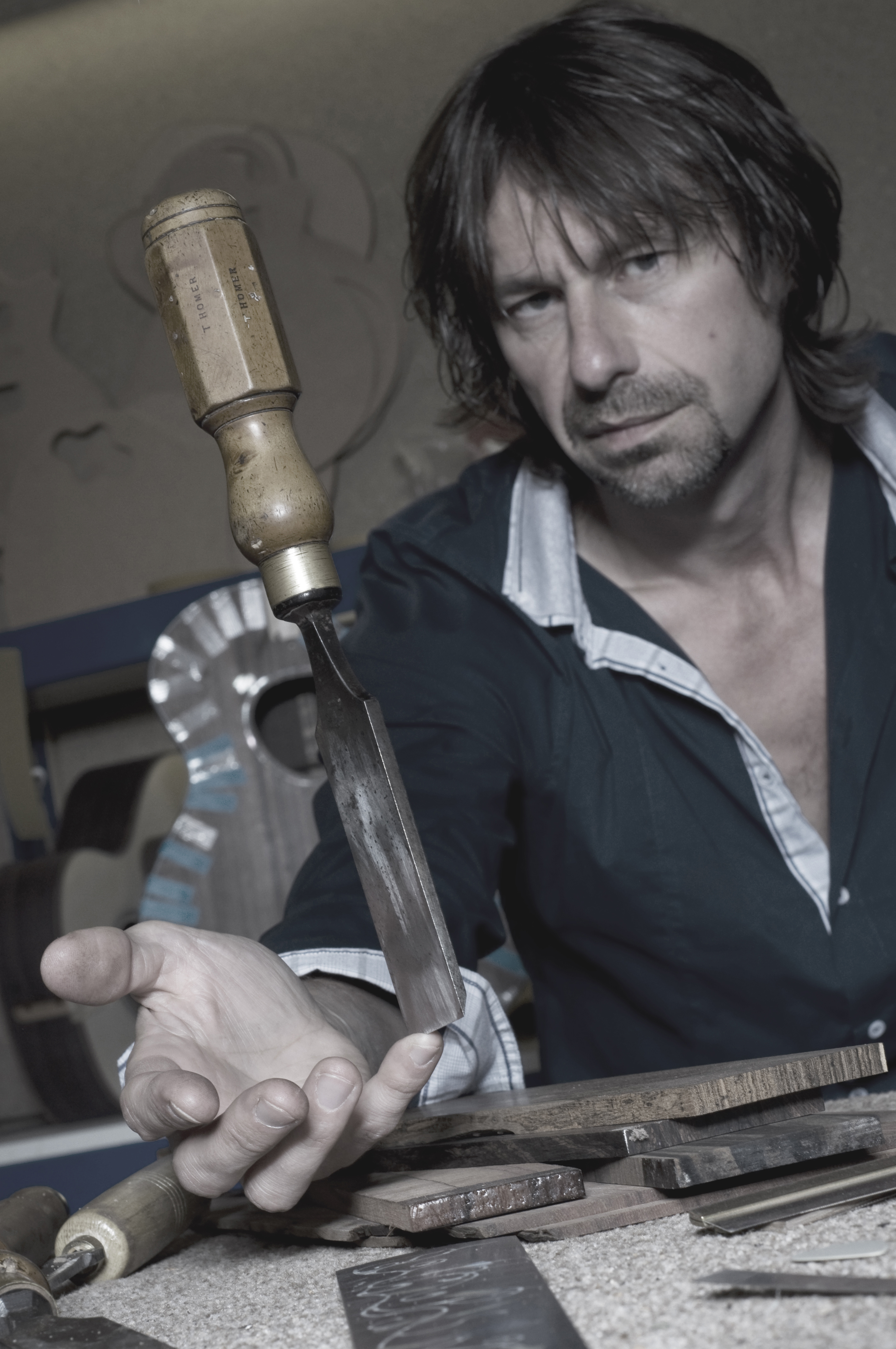 Patrick Eggle Promotional picture